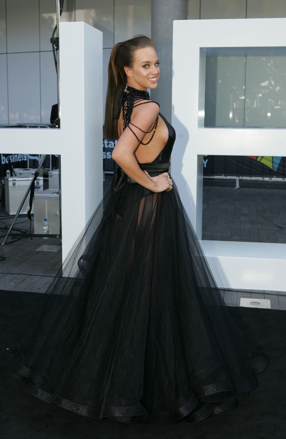 Bonnie Anderson (singer) at the Aria Awards 2013 in Sydney Australia